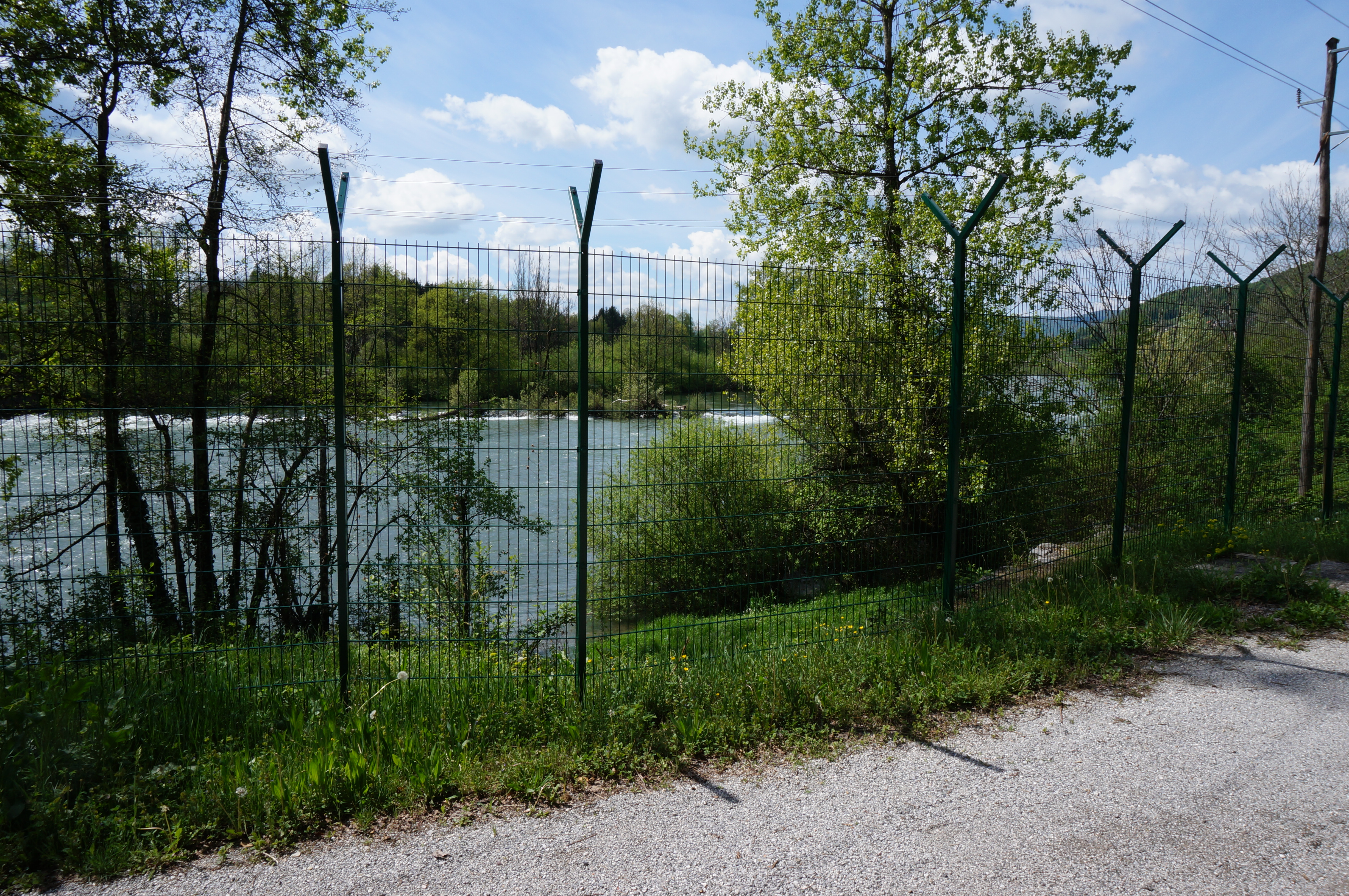 Slovenian border fence at the river Kolpa near Vinica in White Carniola (Bela Krajina)